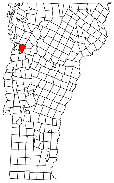 Map of Vermont towns with Williston highlighted